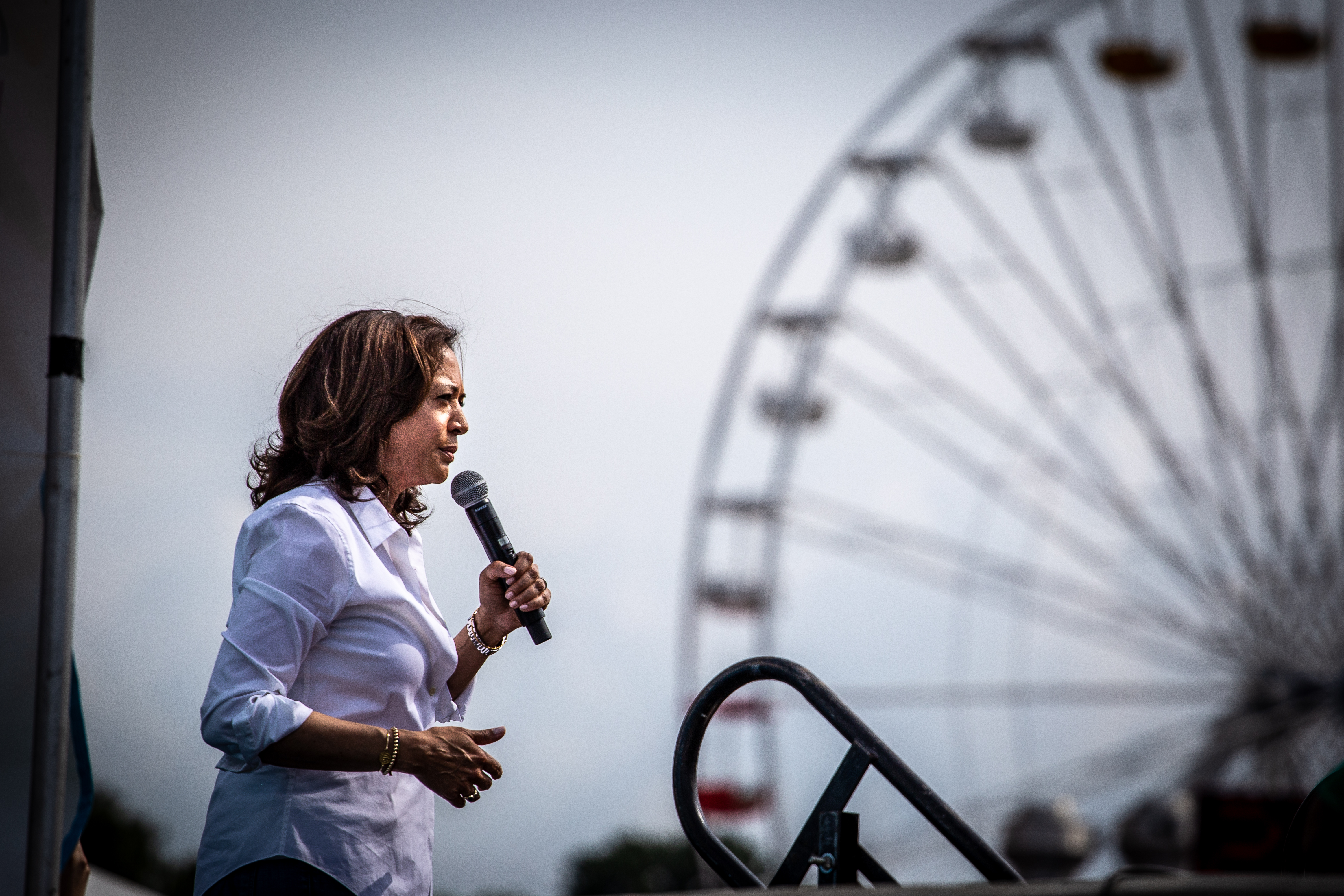 U.S. Senator Kamala Harris. Photographs of or around the Des Moines Register Political Soapbox at the 2019 Iowa State Fair as eight Democratic presidential candidates dropped by to speak on Saturday, August 10.